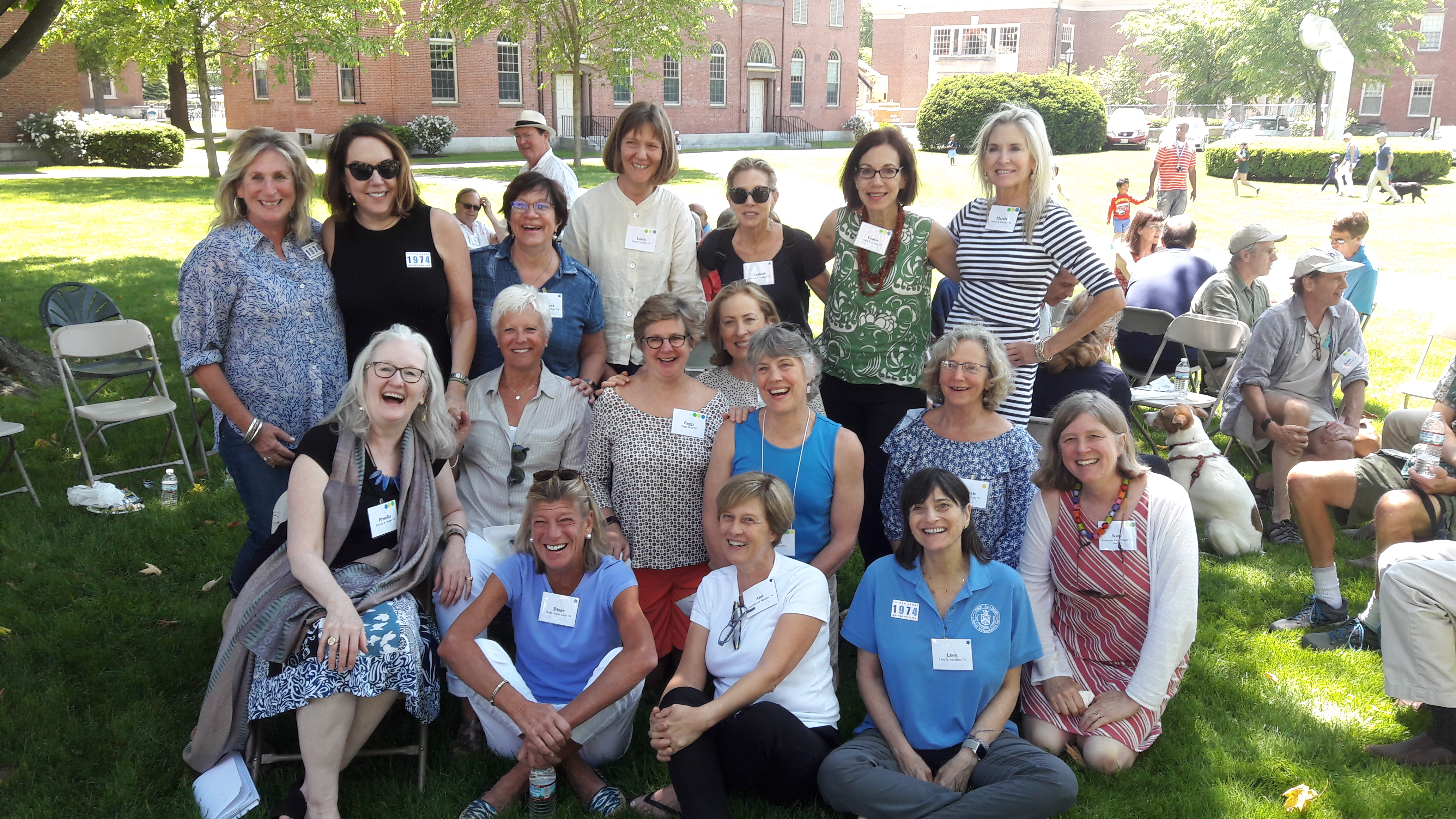 Abbot alumni pose for a photo at their 45th reunion in 2019. They were among the first graduates of the Class of 1974 -- the first co-educational class -- when the two schools merged in 1973. They received Andover diplomas at the June commencement in 1974. At Phillips Academy, reunions happen every 5 years.